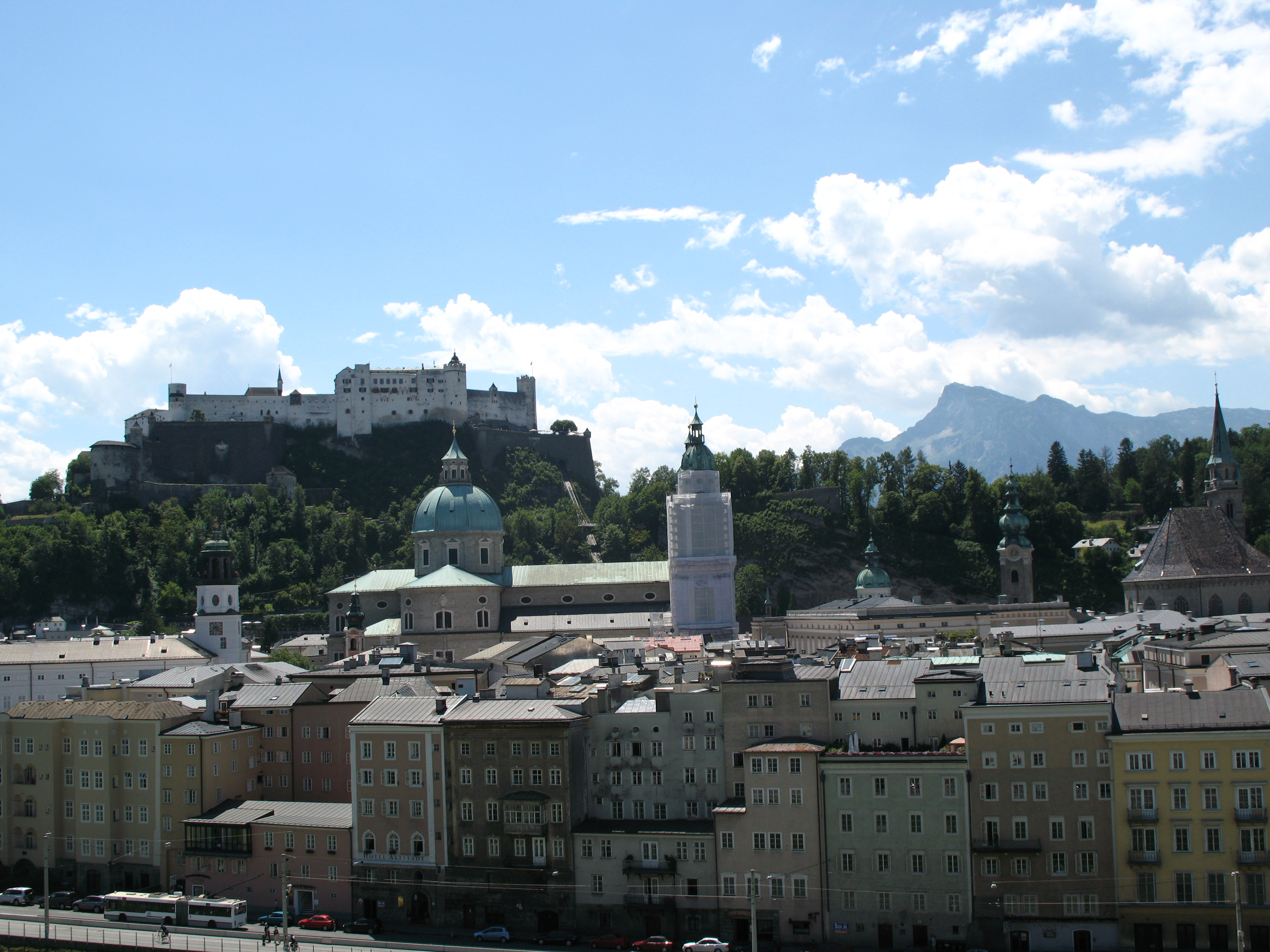 View from Kapuzinerberg, Salzburg, Austria